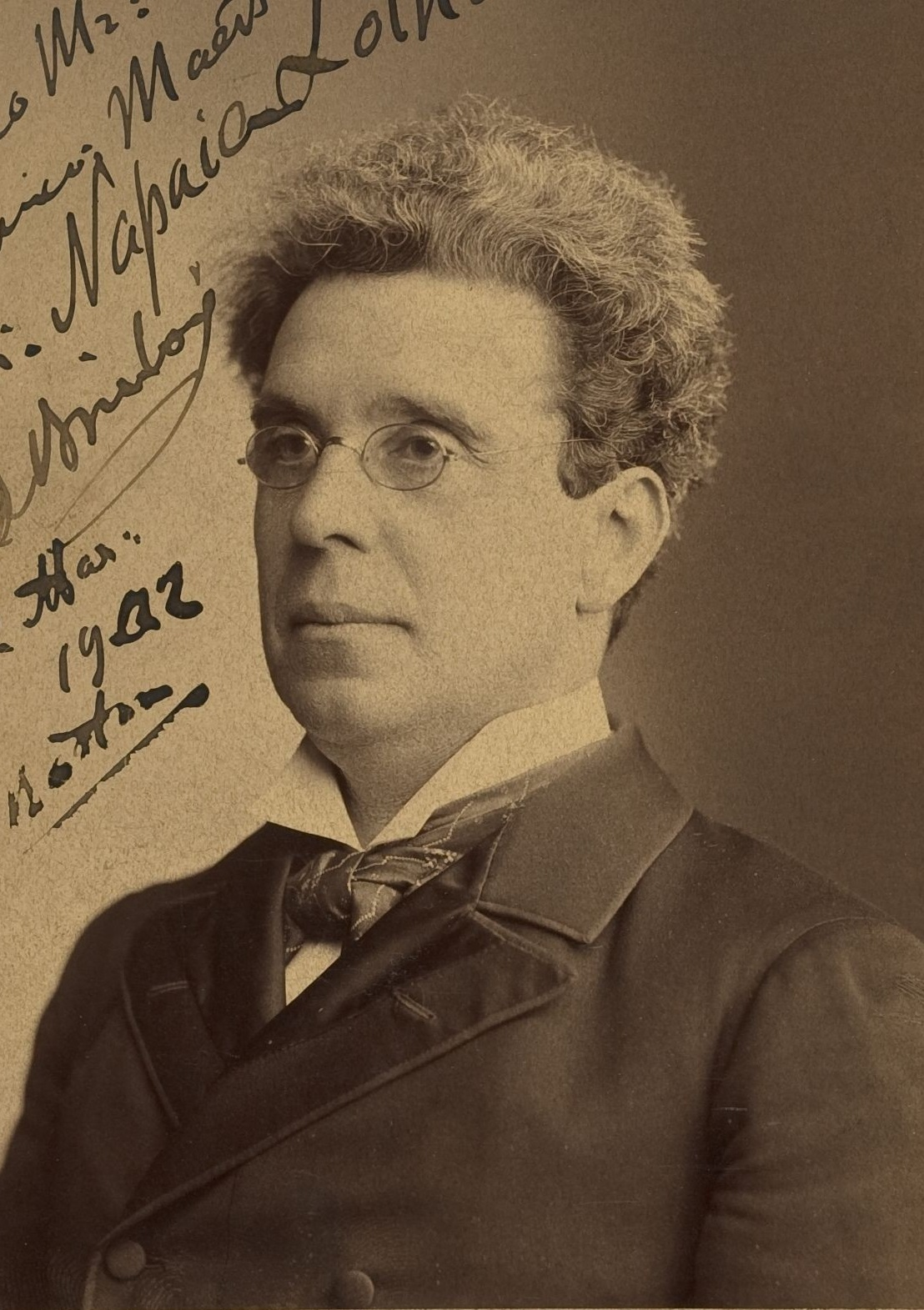 Cabinet card image of Italian-American composer and conductor Alberto Bimboni (1882-1960). Handwritten marks on the image indicate its likely date as March 1902. TCS 1.2500, Harvard Theatre Collection, Harvard University